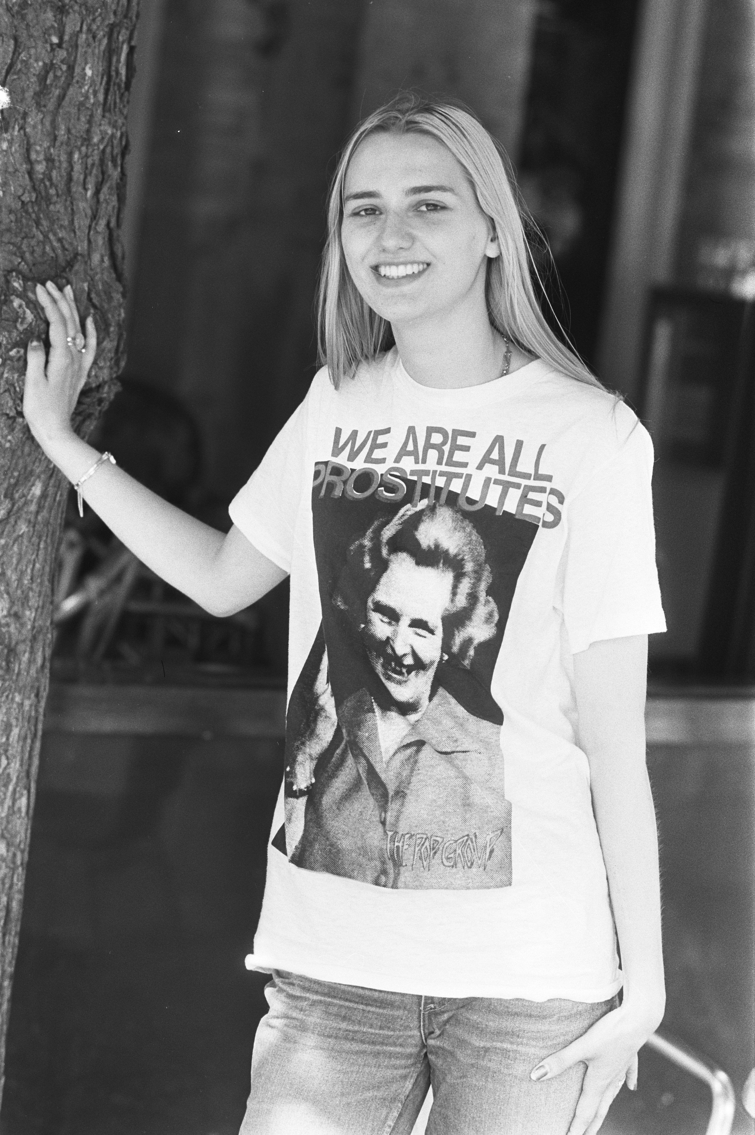 Anja of the Hoerenvakbond, an advocacy-support group for prostitutes. She is wearing a t-shirt from British punk-rock band "The Pop Group". The Pop Group had a song & album called "We are all prostitutes". See also here.